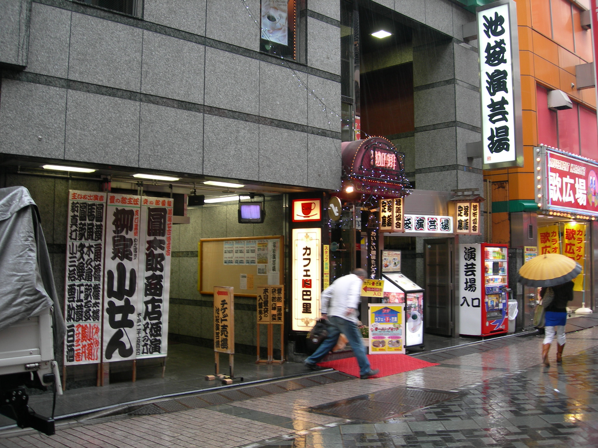 Ikebukuro Engeijo, One of the vaudeville of Rakugo of four in Tokyo.